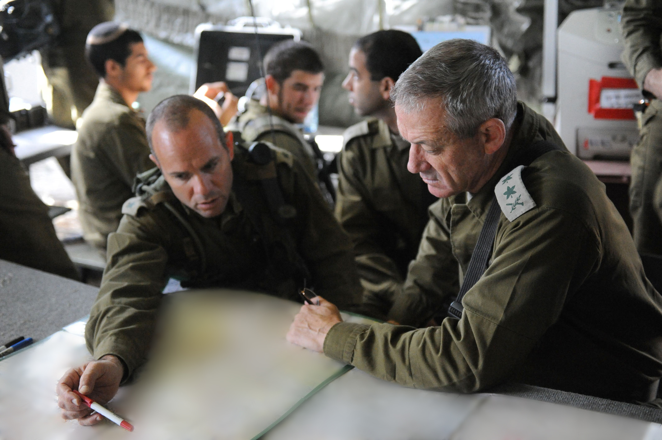 November 13, 2011 Chief of Staff Lt. Gen. Benny Gantz held today a surprise exercise for the Valley Brigade. Among other things, the forces practiced an abduction scenario from the Beka'ot Crossing to the Nablus area. The Israel Defense Forces Facebook page The Israel Defense Forces blog Follow us on Twitter